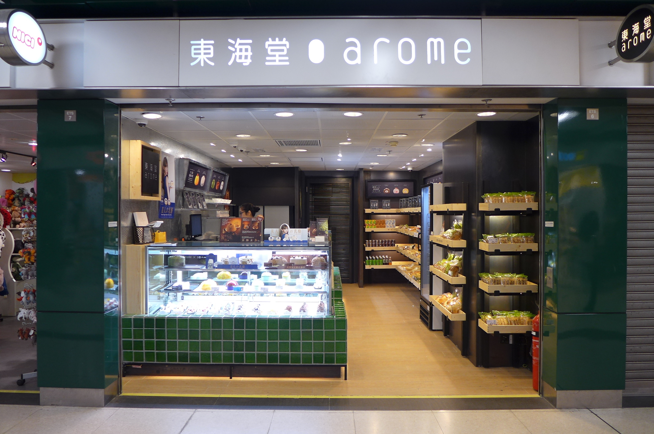 Arome Bakery on MTR East Tsim Sha Tsui station concourse